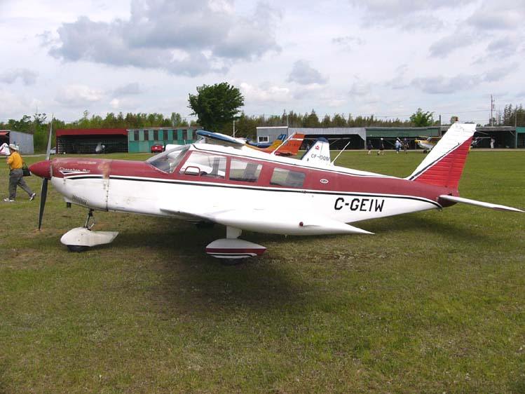 A Piper PA-32-260 Cherokee Six (C-GEIW) at the Smiths Falls Ontario Airport Fly-in 05 June 2005